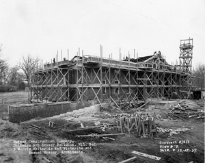 Museum under construction in 1938.